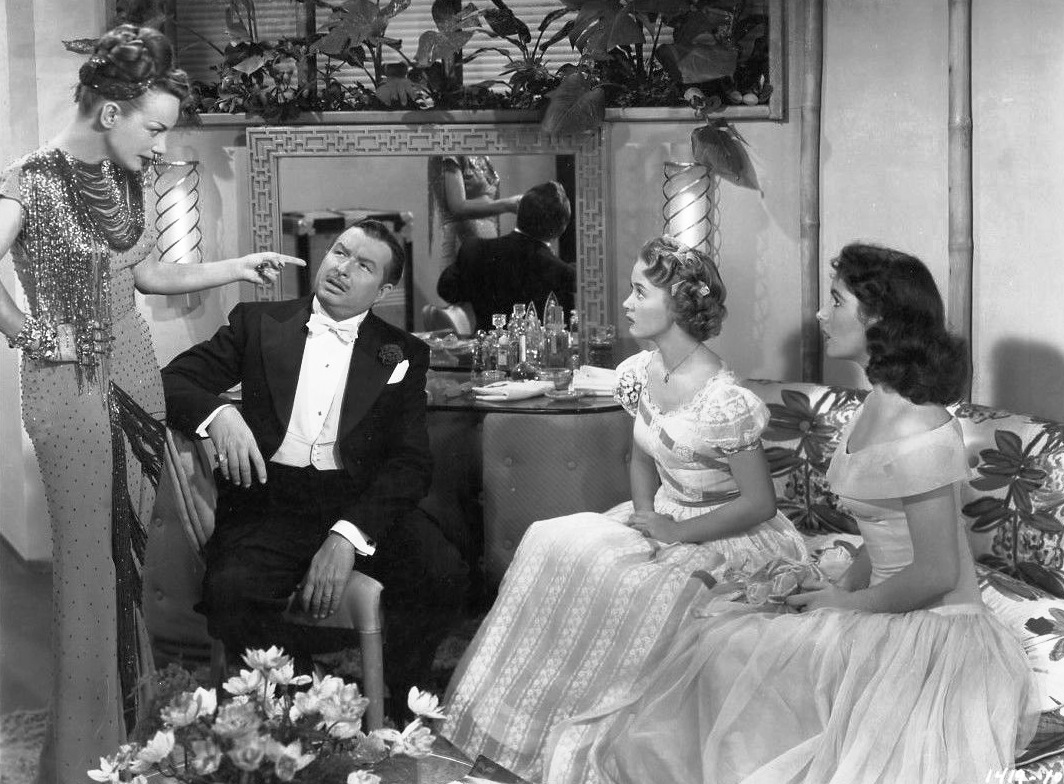 Carmen Miranda, Xavier Cugat, Jane Powell and Elizabeth Taylor in A Date with Judy (1948)